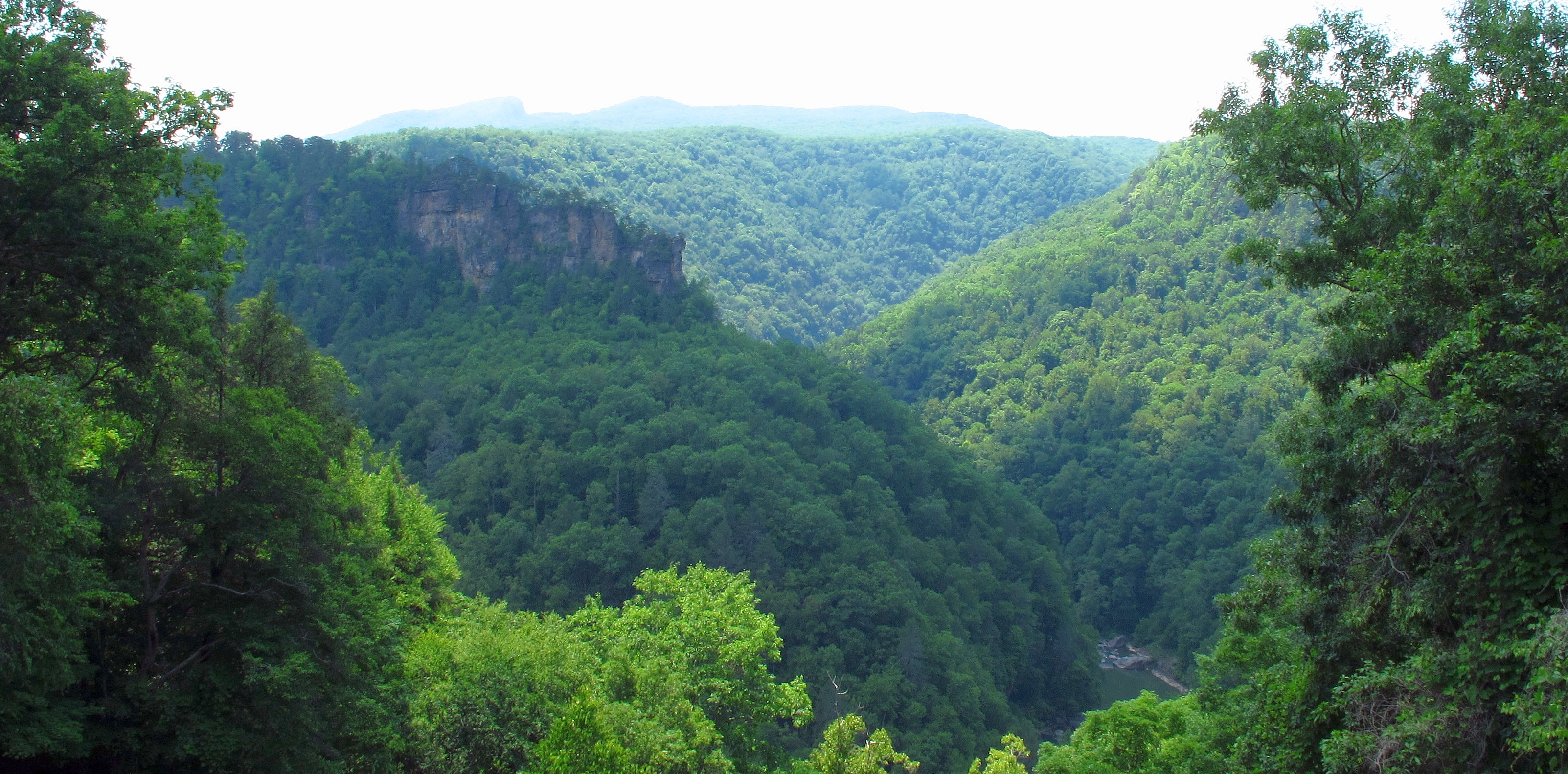 A view of Russell Fork in Breaks Interstate Park.